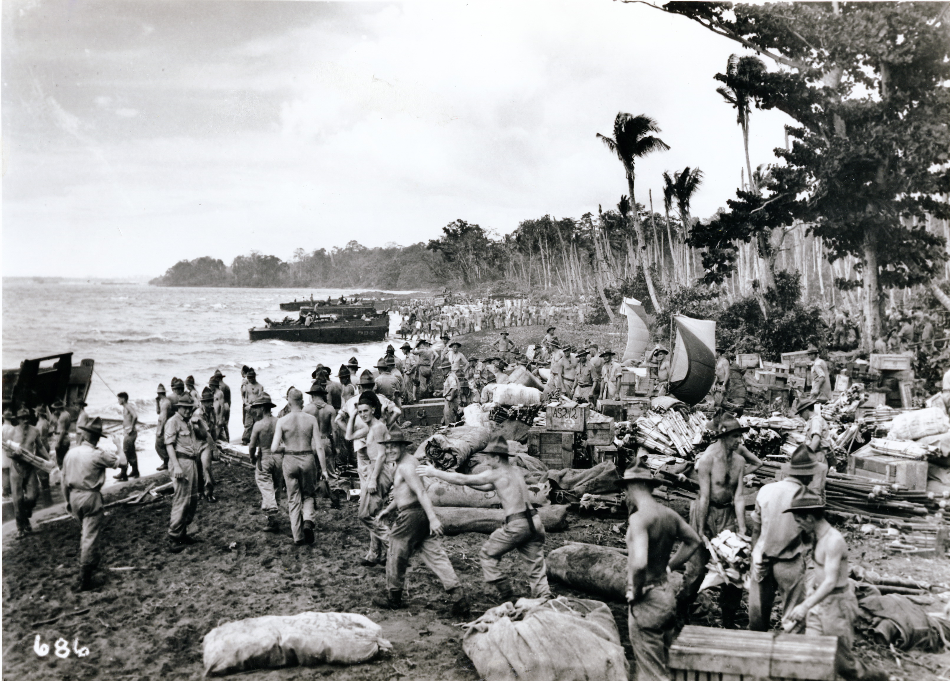 Archives Reference: AAME 8106 W5603 11/17/99, R20939740